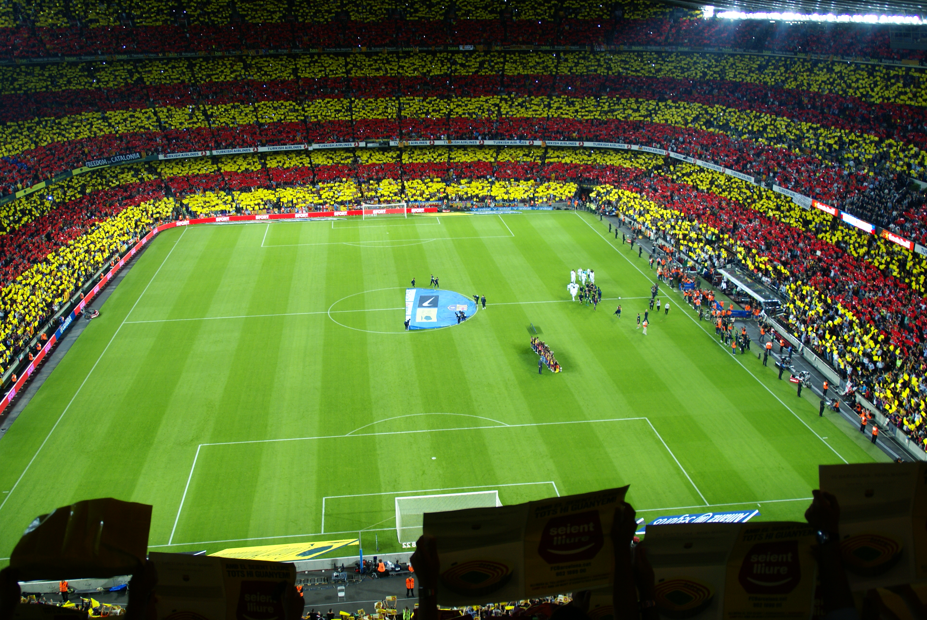 Camp Nou before the Barça - Real Madrid match played in 7/10/2012